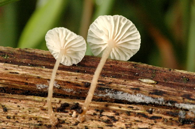 Marasmiellus ramealis from Commanster, Belgium. The determination of the species shown in this picture has been verified.